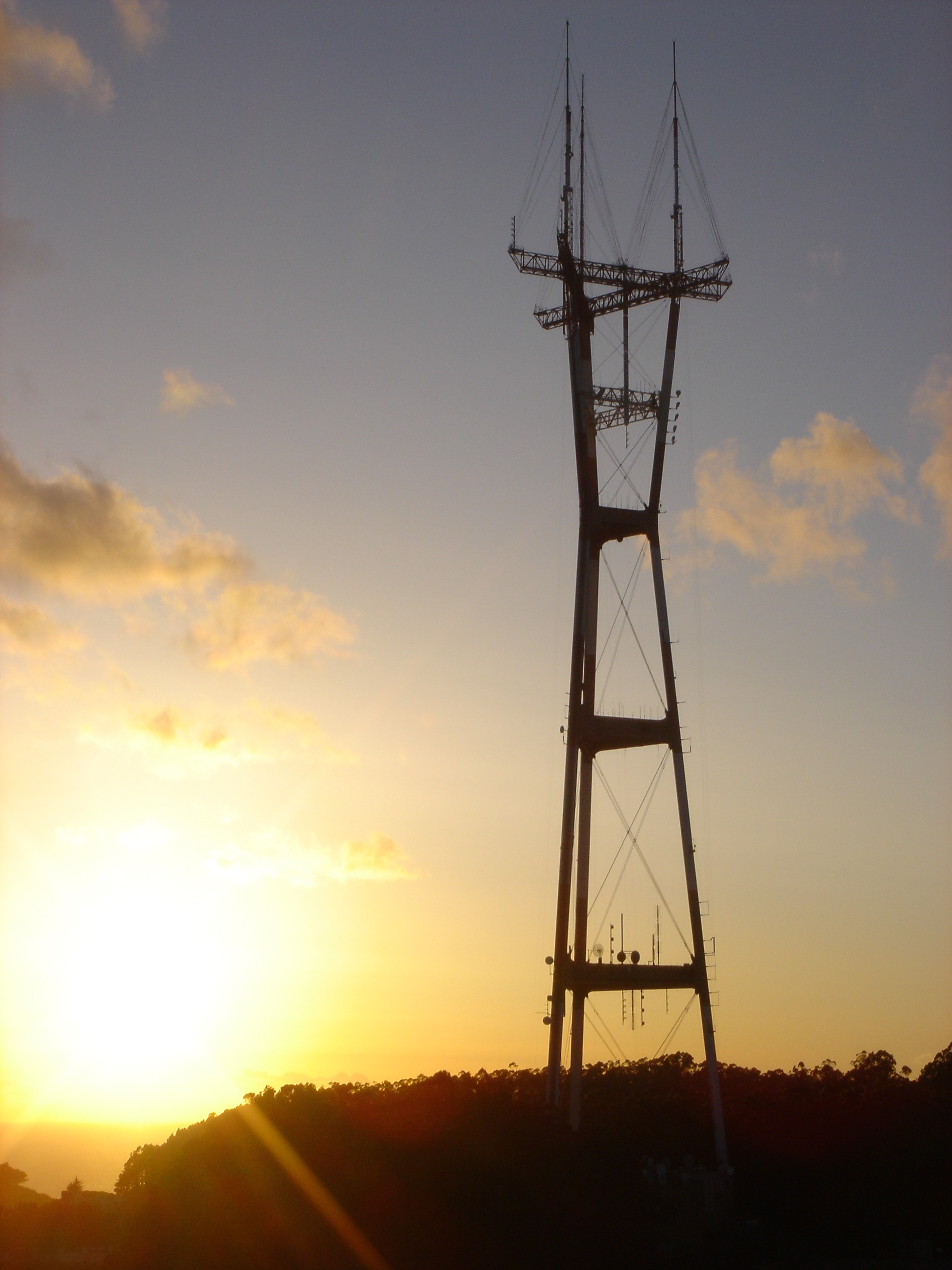 Sutro Tower at Sunset.